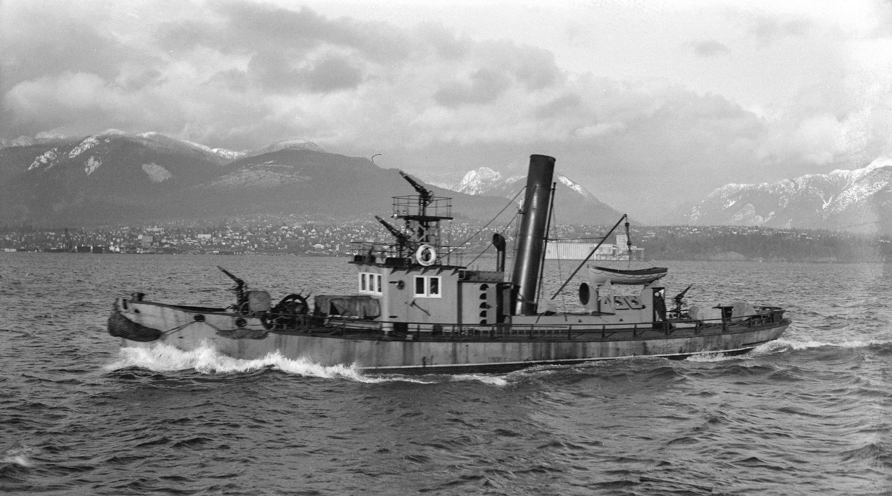 S.S. Orion V.H.B. (Vancouver Harbour Board) Fireboat Vancouver archives ID: AM1506-S3-2-: CVA 447-2533